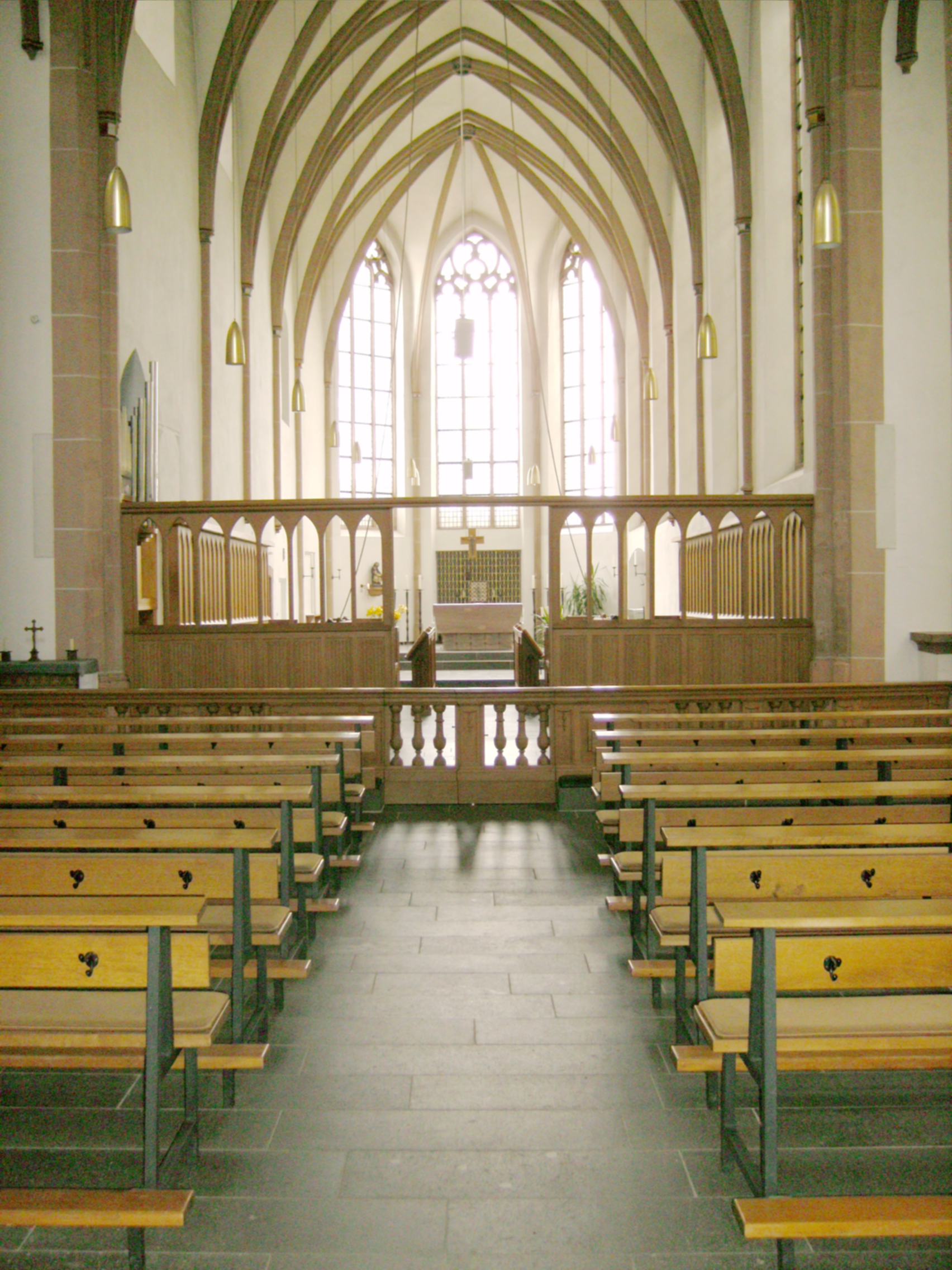 Church of Mariawald Abbey, Heimbach, Germany